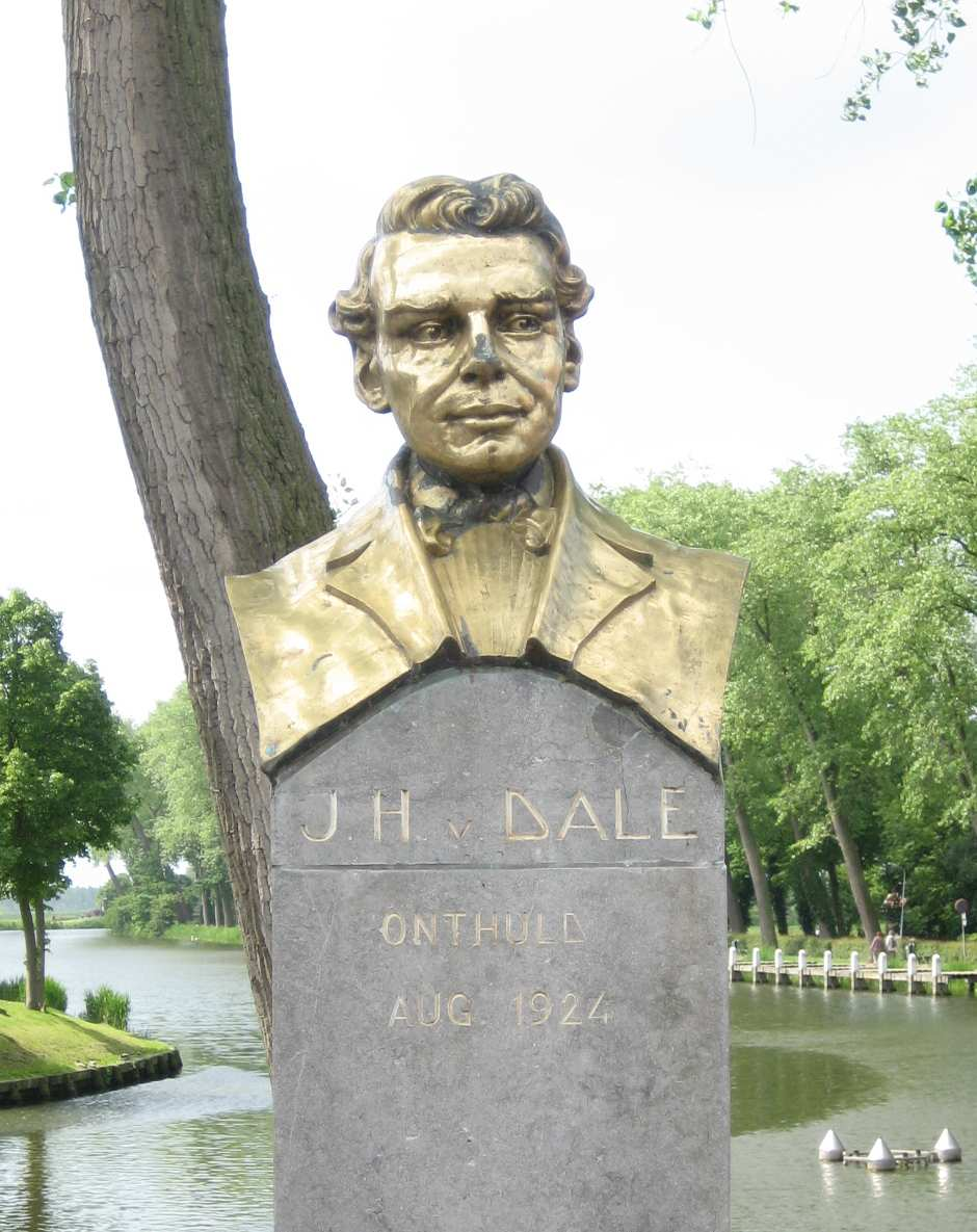 Johan Hendrik van Dale (1828-1872), Dutch lexicographer.